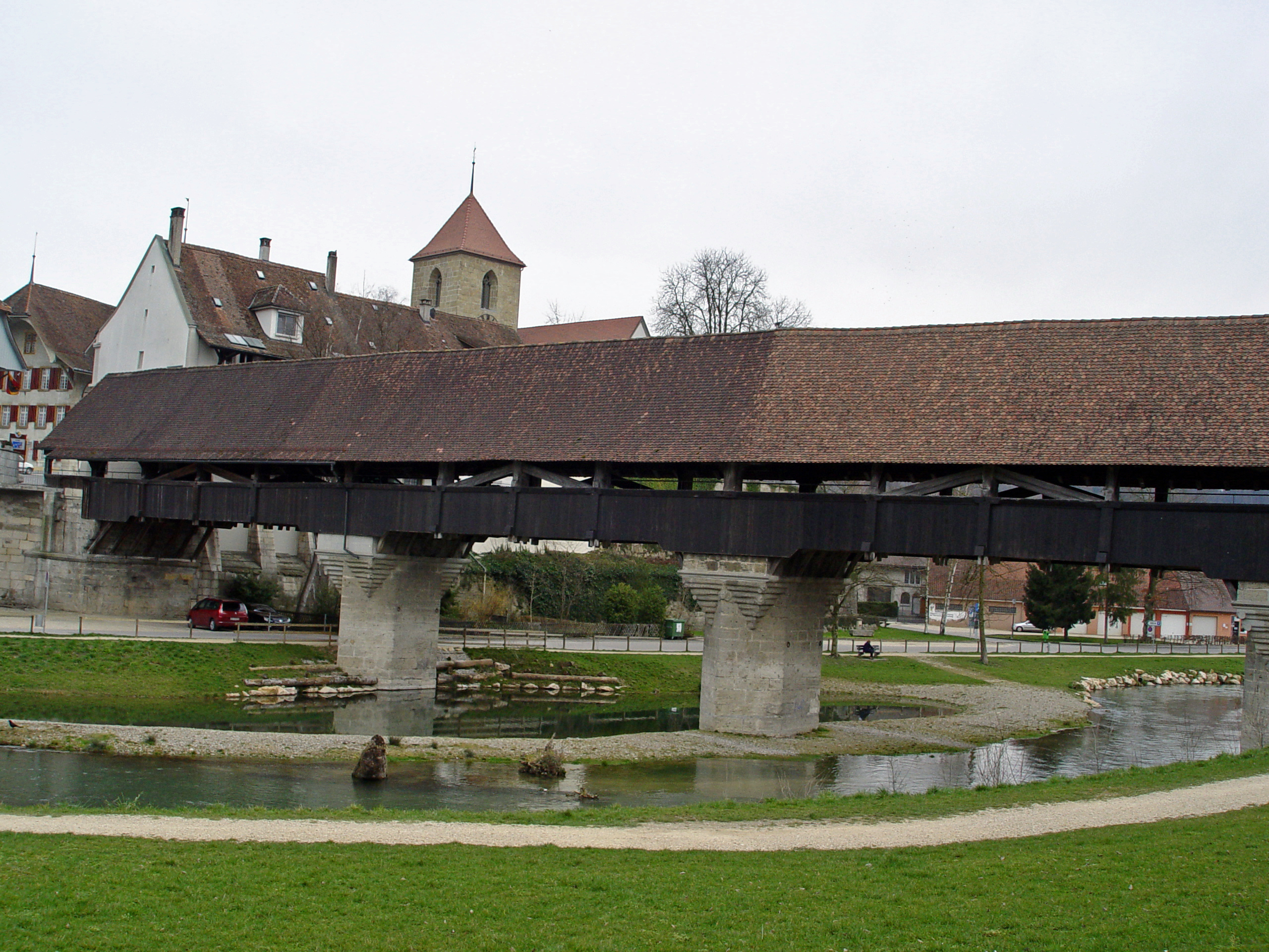 Aarberg, Switzerland. Bridge over the Aar River